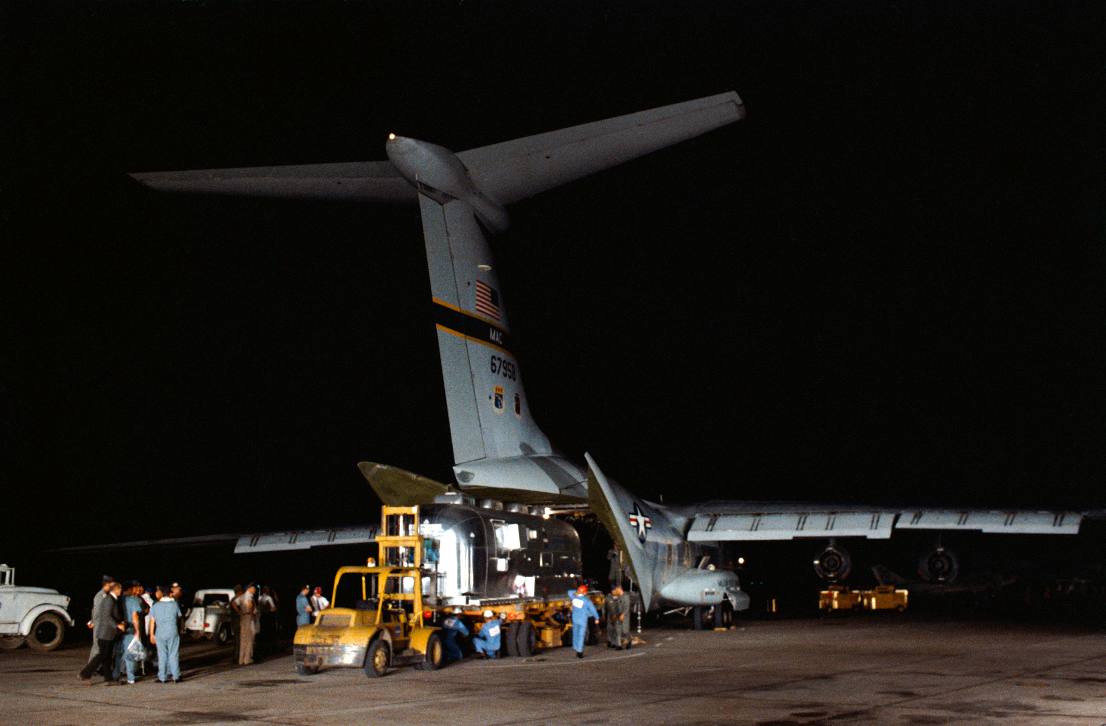 A Mobile Quarantine Facility (MQF), with the three Apollo 11 crewmembers inside, is unloaded from a United States Air Force C-141 transport at Ellington Air Force Base very early Sunday after a flight from Hawaii. A large crowd was present to welcome astronauts Neil A. Armstrong, Michael Collins, and Edwin E. Aldrin Jr. back to Houston following their historic lunar landing mission. The crew remained in the MQF until they arrived at the Crew Reception Area of the Lunar Receiving Laboratory (LRL) at the Manned Spacecraft Center (MSC). The crew will be released from quarantine on Aug. 11, 1969.